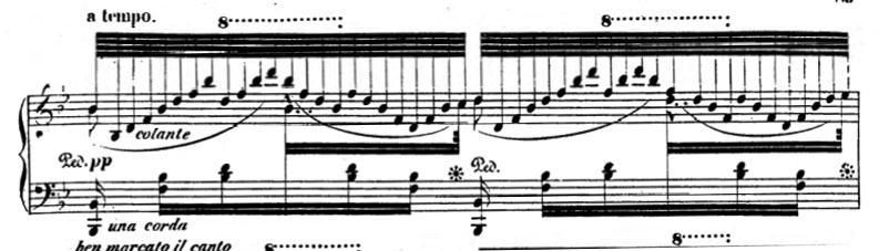 Excerpt from Sigismond Thalberg's Moise-fantasy. An example of Thalberg's style of virtuosic piano writing.